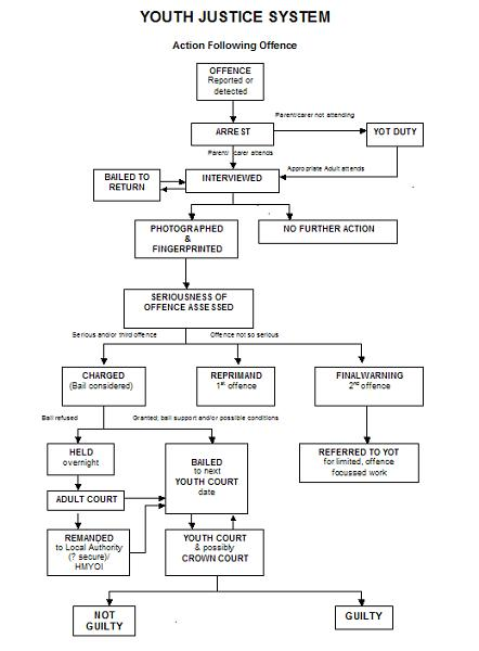 Flow diagram of the procedure followed by Youth Offending Teams.